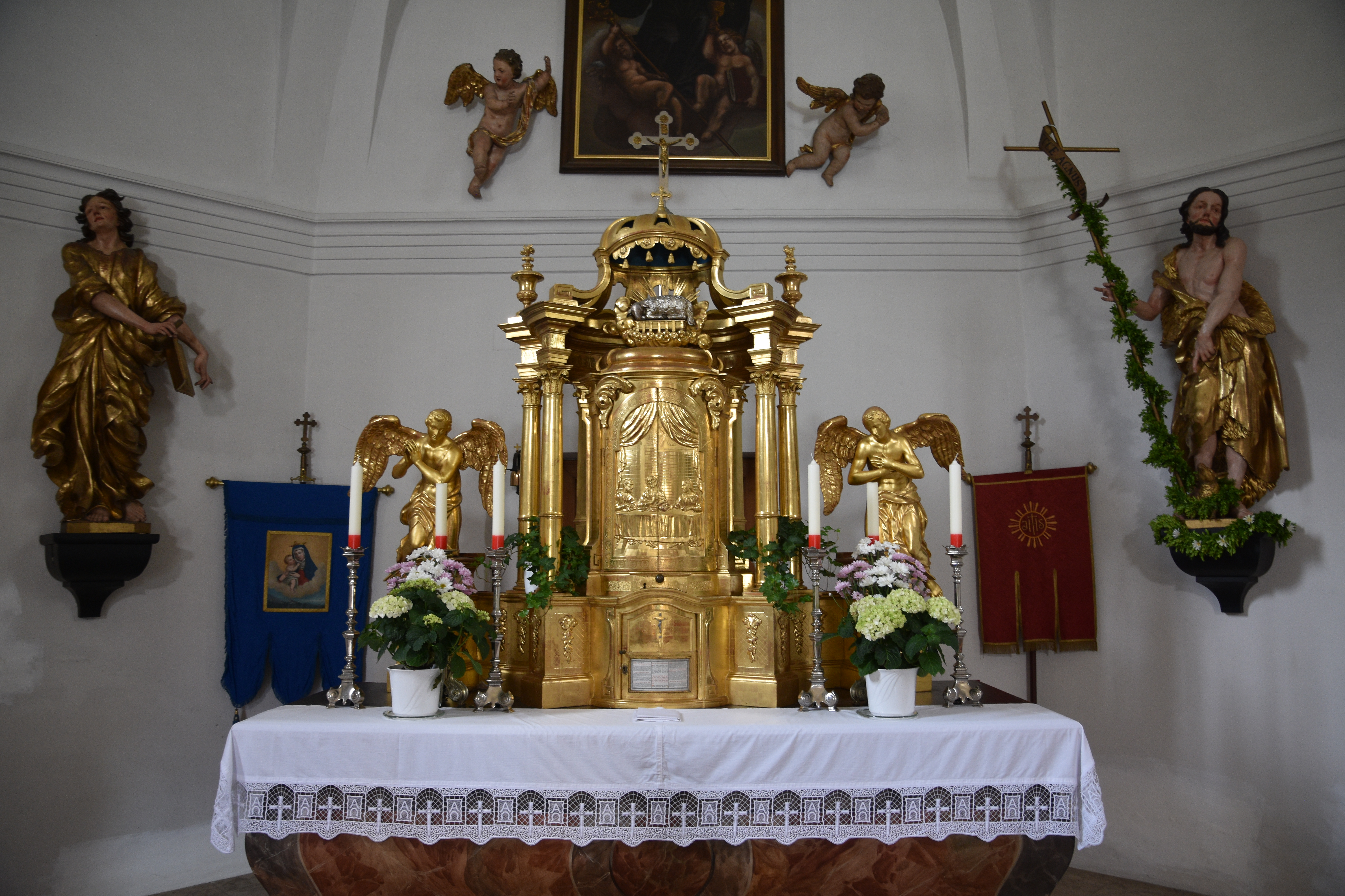 Church Pfarrkirche Unternberg - Interior